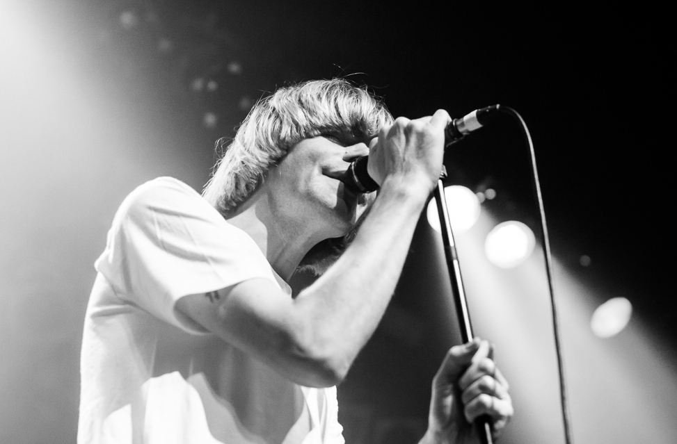 Tim Burgess live at The Powerstation, Auckland, New Zealand, 2018 | © Amanda Ratcliffe